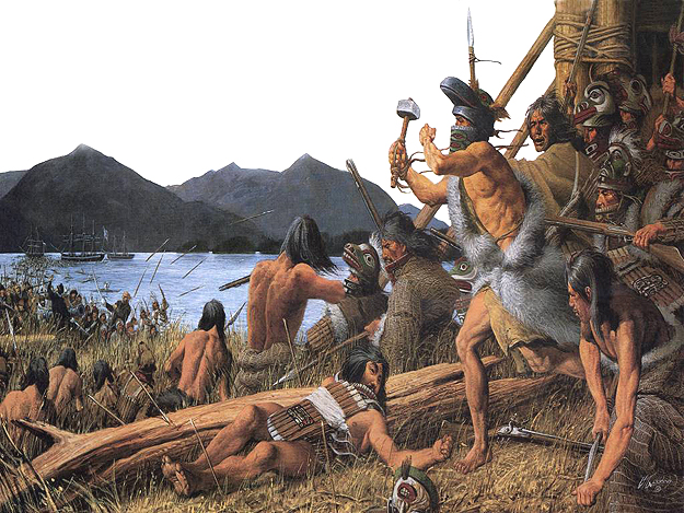 The Battle of Sitka, a painting by Louis S. Glanzman, depicts details of the 1804 battle between invading Russian forces and Kiks.ádi Tlingit at the mouth of Indian River in what is now Sitka National Historical Park. K 'alyaan, the legendary Kiks.ádi warrior depicted in the scene, wears a raven war helmet, and wields a Russian blacksmith's hammer captured from the Russians two years earlier.